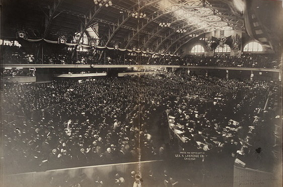 Summary TITLE: Root's opening speech, Republican National Convention, June 21, 1904 CALL NUMBER: LOT 5787 no. 31 (OSF) [P&P] REPRODUCTION NUMBER: LC-USZ62-53425 (b&w film copy neg.) No known restrictions on publication. MEDIUM: 1 photographic print : gelatin silver ; 18 x 25.5 in. CREATED/PUBLISHED: 1904 June 21.